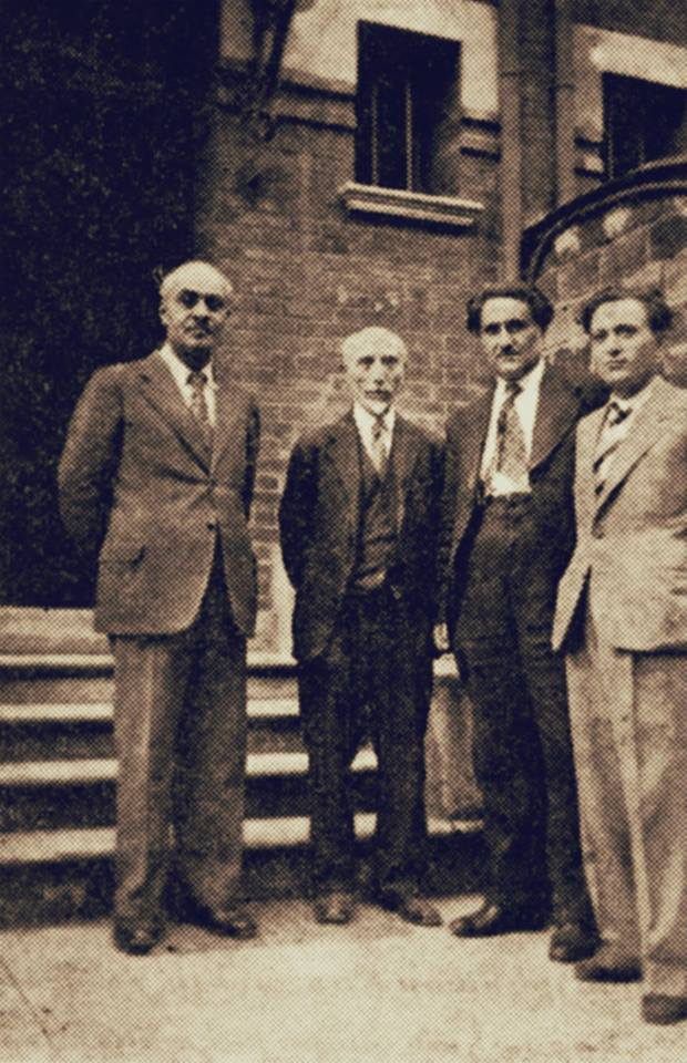 Garegin Nzhdeh, doctor Hovsep (Hovnan) Ter-Davtyan and Gerasim Balayan in front of ARFD former museum house in 1937 August 8, Paris, France.